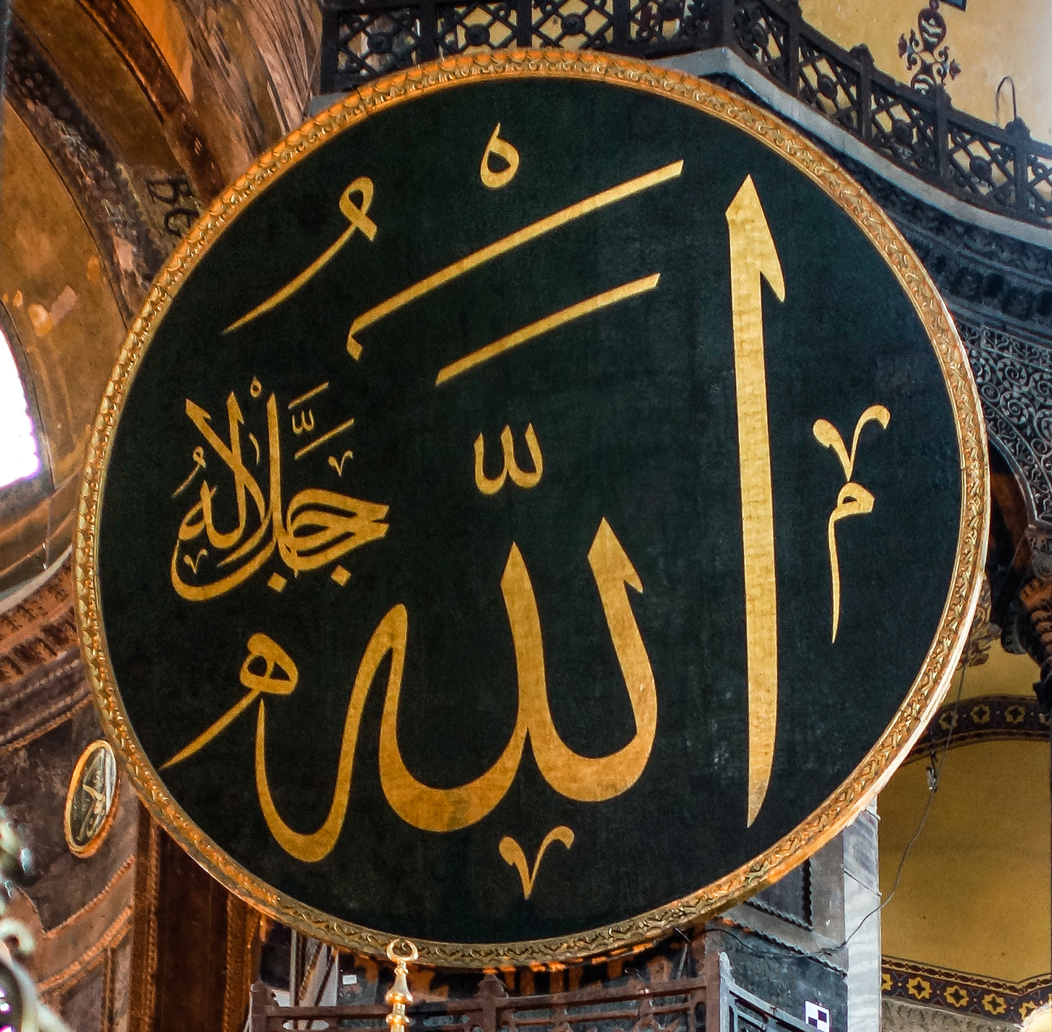 A medallion showing calligraphy Allah Jalla Jalaluhu (notice the overlaid words Jalla and Jalaluhu) in Hagia Sophia, İstanbul. One of the gigantic medallions installed during restoration under Sultan Abdülmecid during 1847 to 1849.